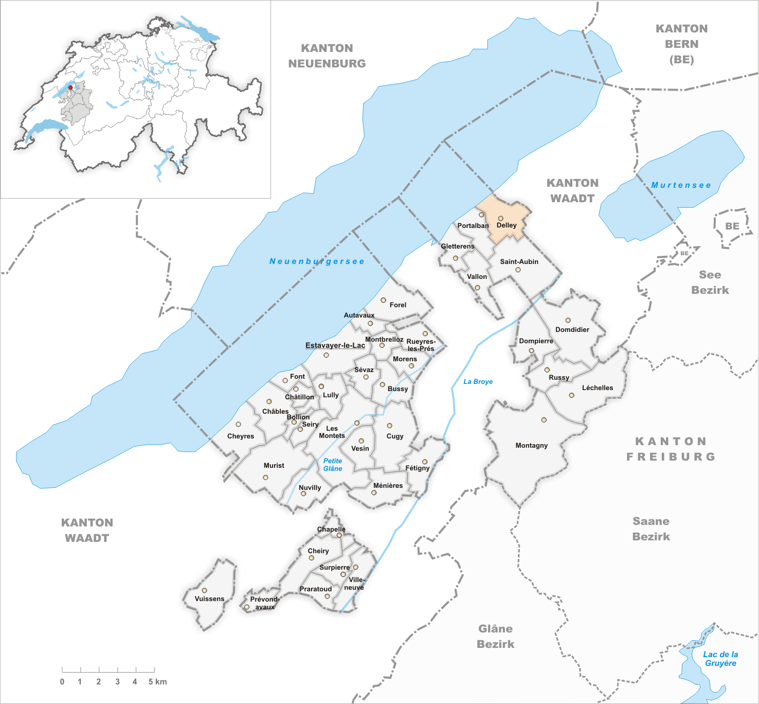 Municipality Delley Artist: Tschubby